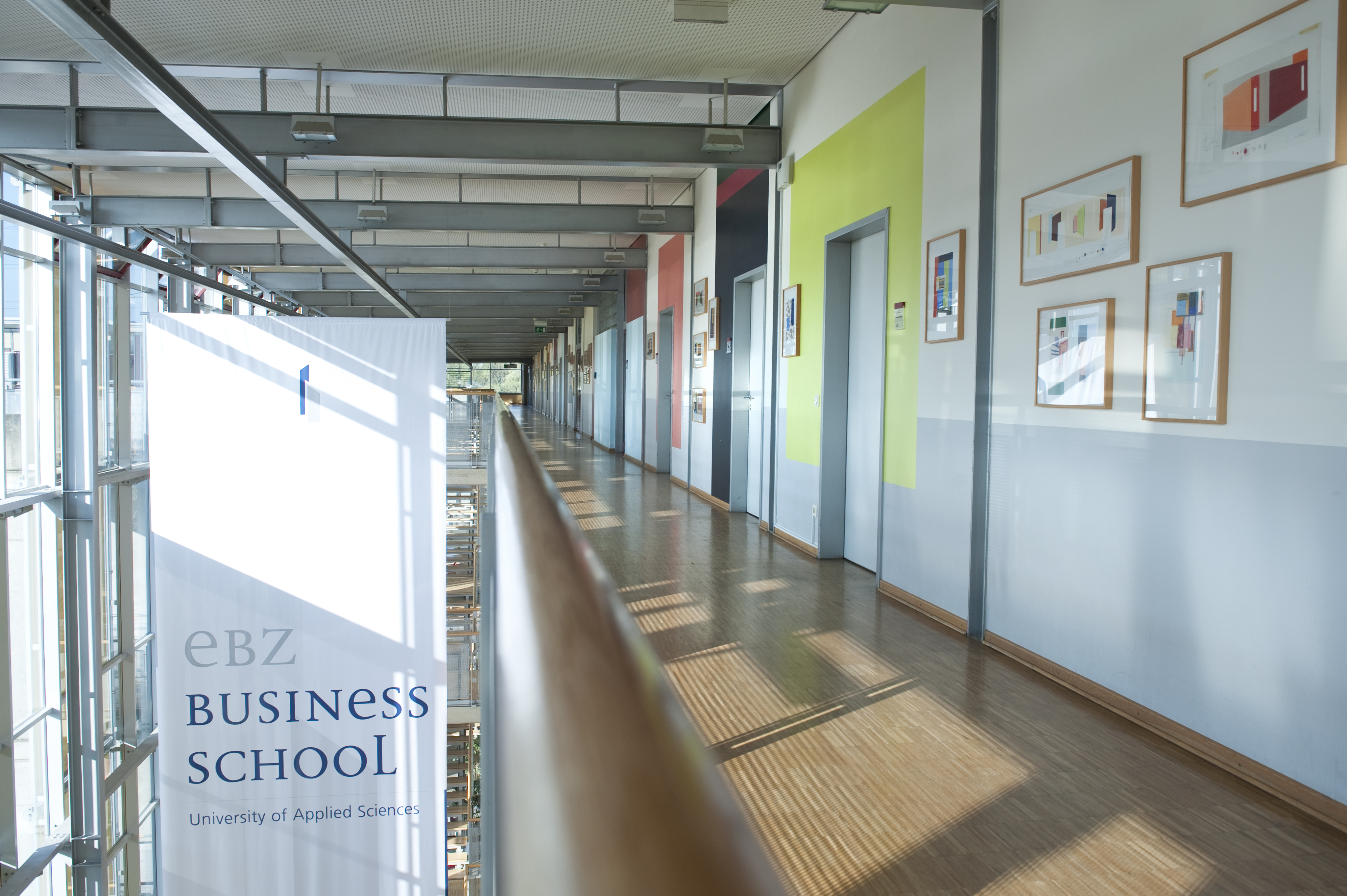 Interior view of the EBZ Business School, Bochum